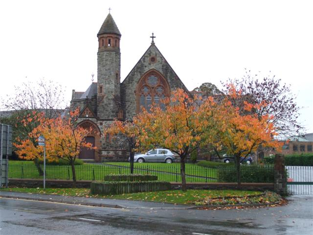 First Omagh Church with a mantle of trees. Looking south along the Dublin Road.